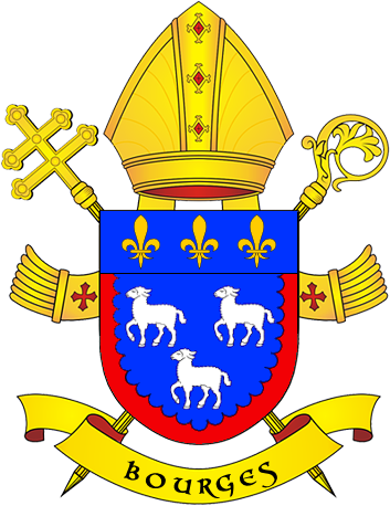 Coat of Arms of archdiocese of Bourges in France